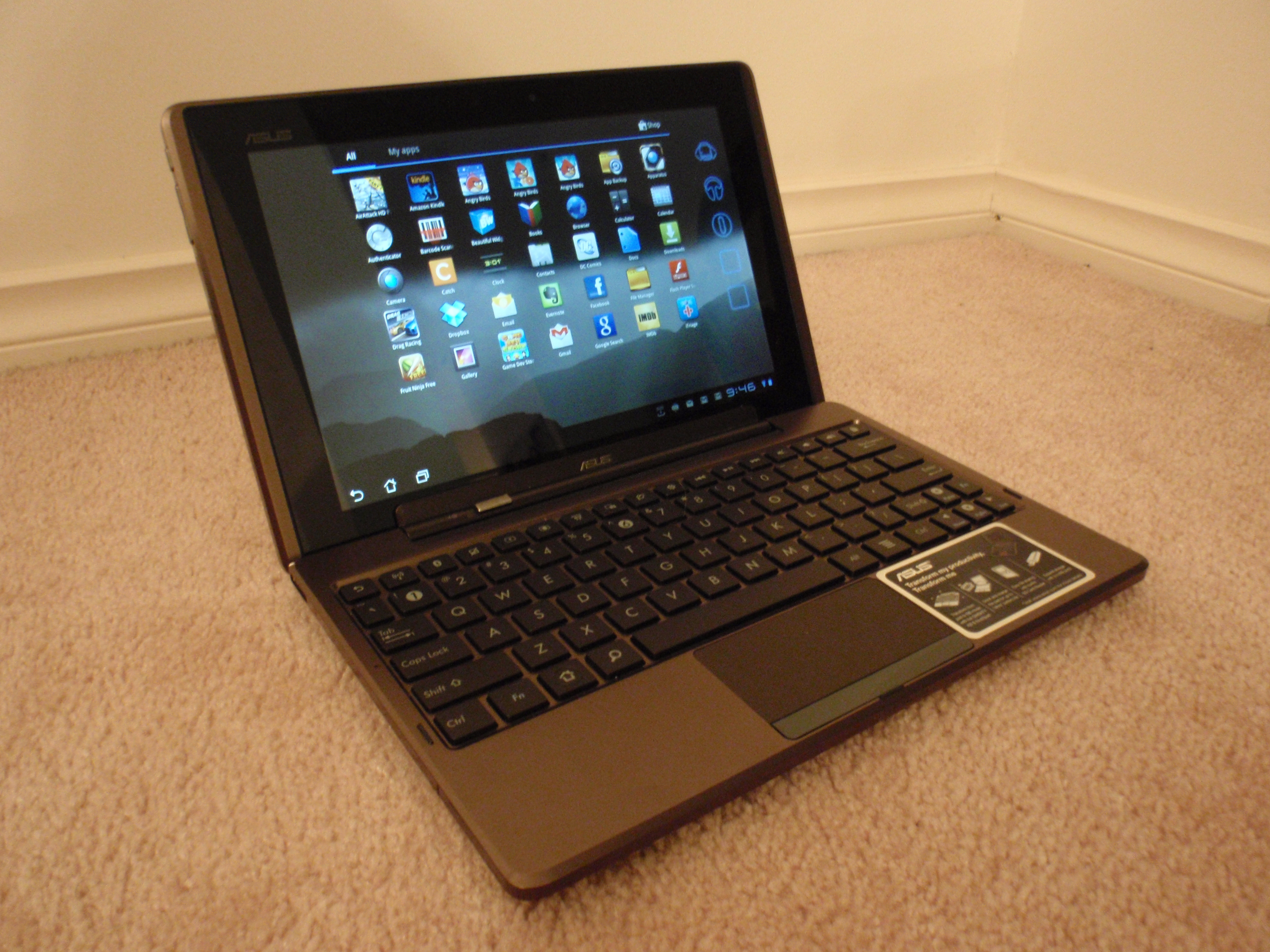 An ASUS EeePad Transformer with the optional dock/keyboard.